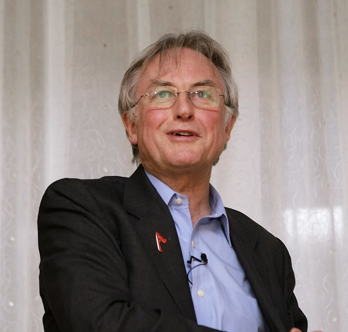 Richard Dawkins at the 34th American Atheists Conference in Minneapolis.